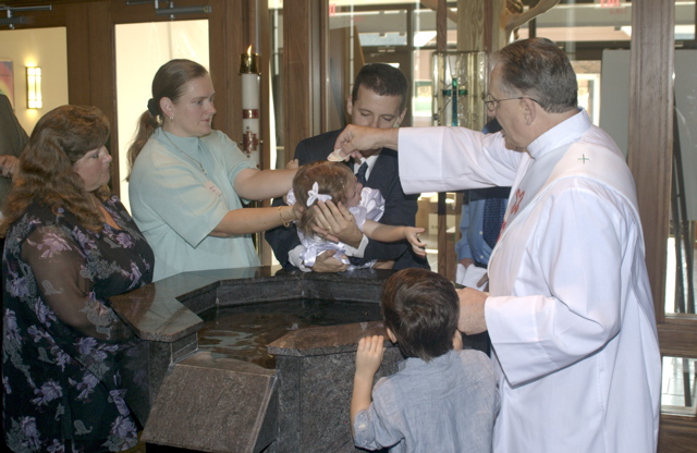 Object: Little girl at catholic christening Photographer: Nils Fretwurst Date: September 2005